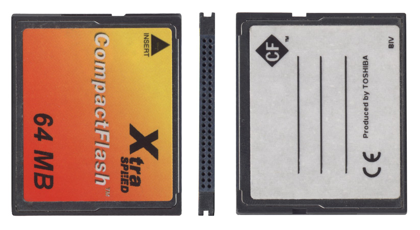 This image shows a 64 MB compact flash card.